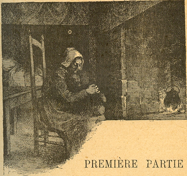 Drawing from Sans Famille